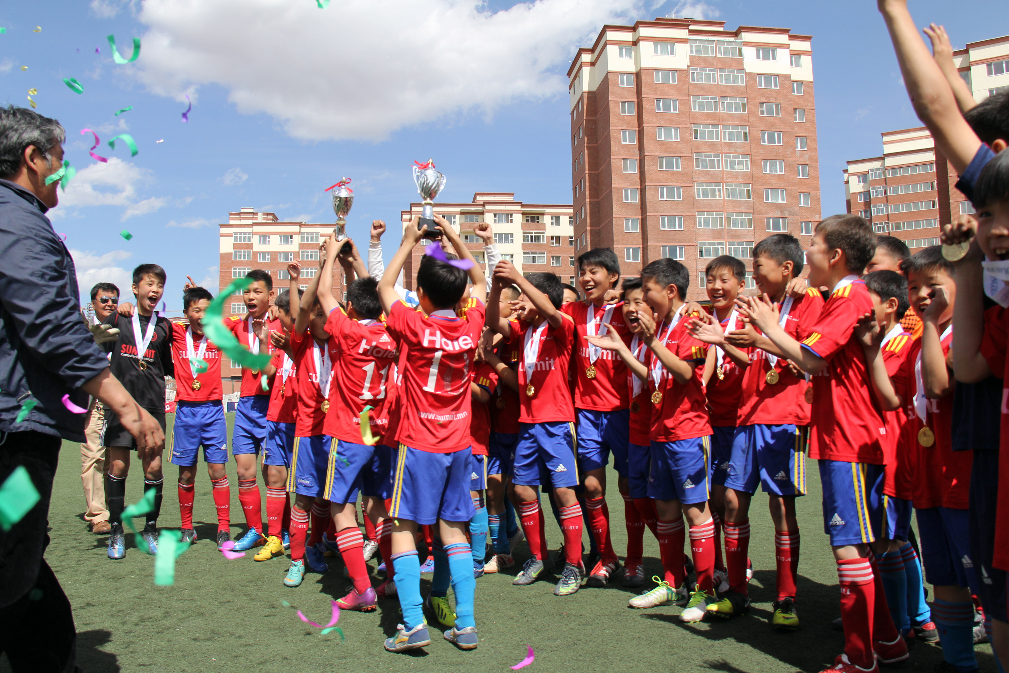 2013.05.20. МХБХ-ны өсвөр үеийнхний УАШТ-ий 11, 13 хүртэлх насны ангилалд түрүүлж, давхар цохилт хийв.